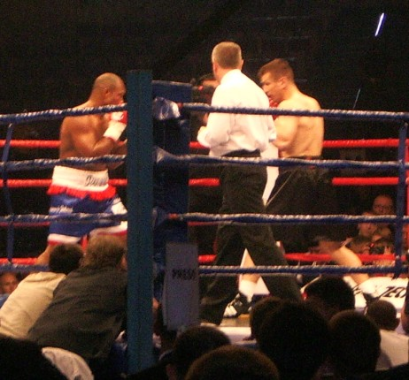 Polish boxer Tomasz Adamek vs panama boxer Luis Pineda, 9 june 2007 in Katowice